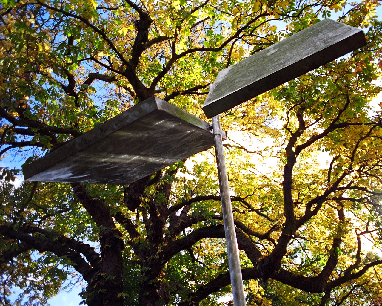 The George Rickey wind sculpture at Holywell Manor, Oxford. (Two Planes Vertical Horizontal II, installed 1999)